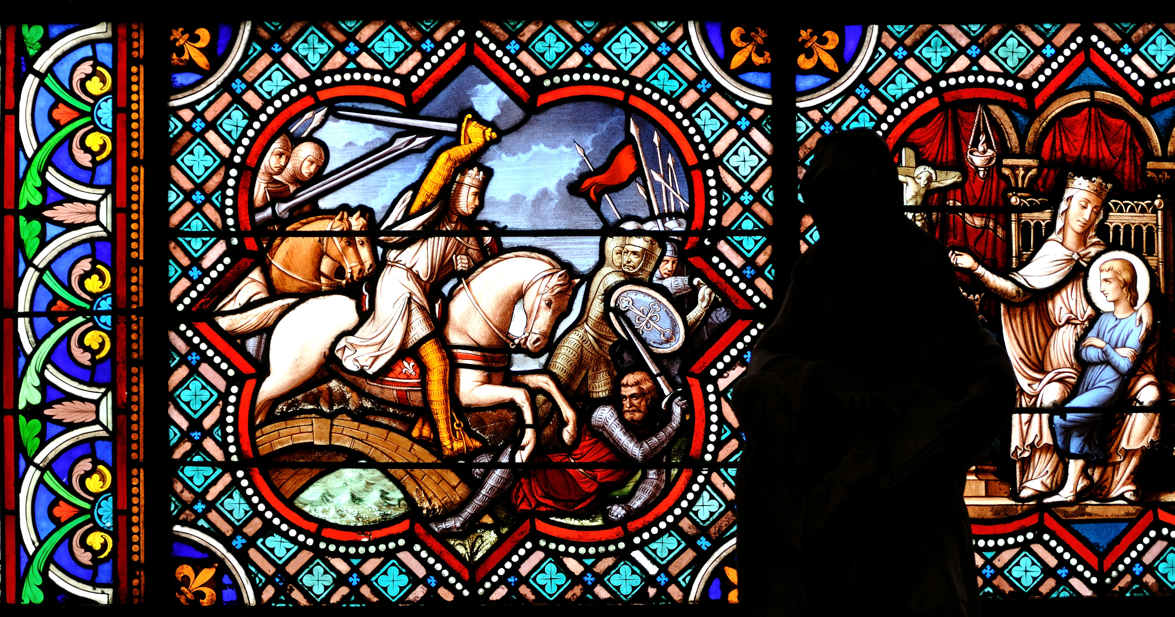 Notre-Dame de Senlis cathedral (Oise, France). Detail of the stained glass in the chapel of Saint-Louis, made in 1863 by Claude Lavergne.